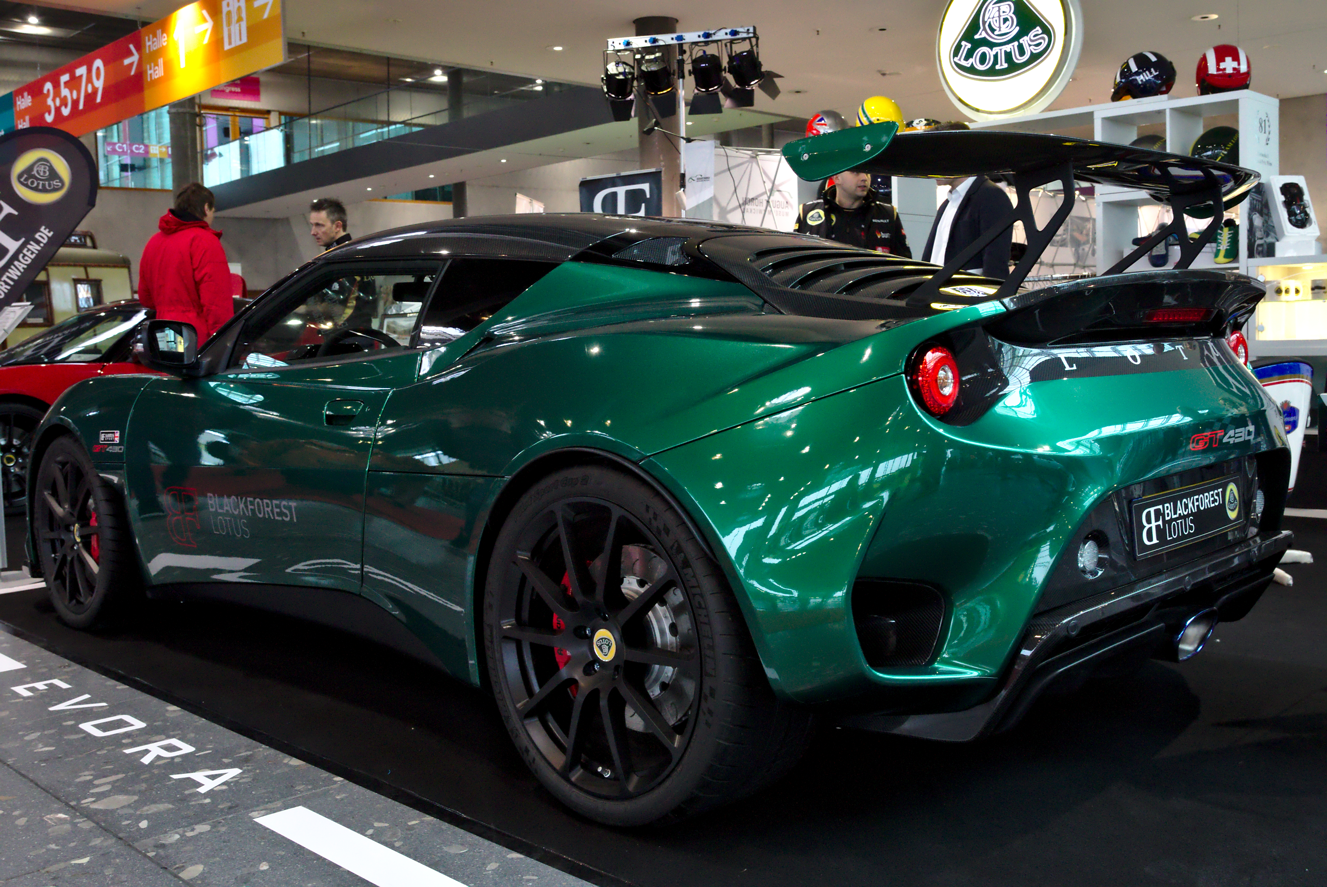 Lotus Evora GT430 at Retro Classics 2018